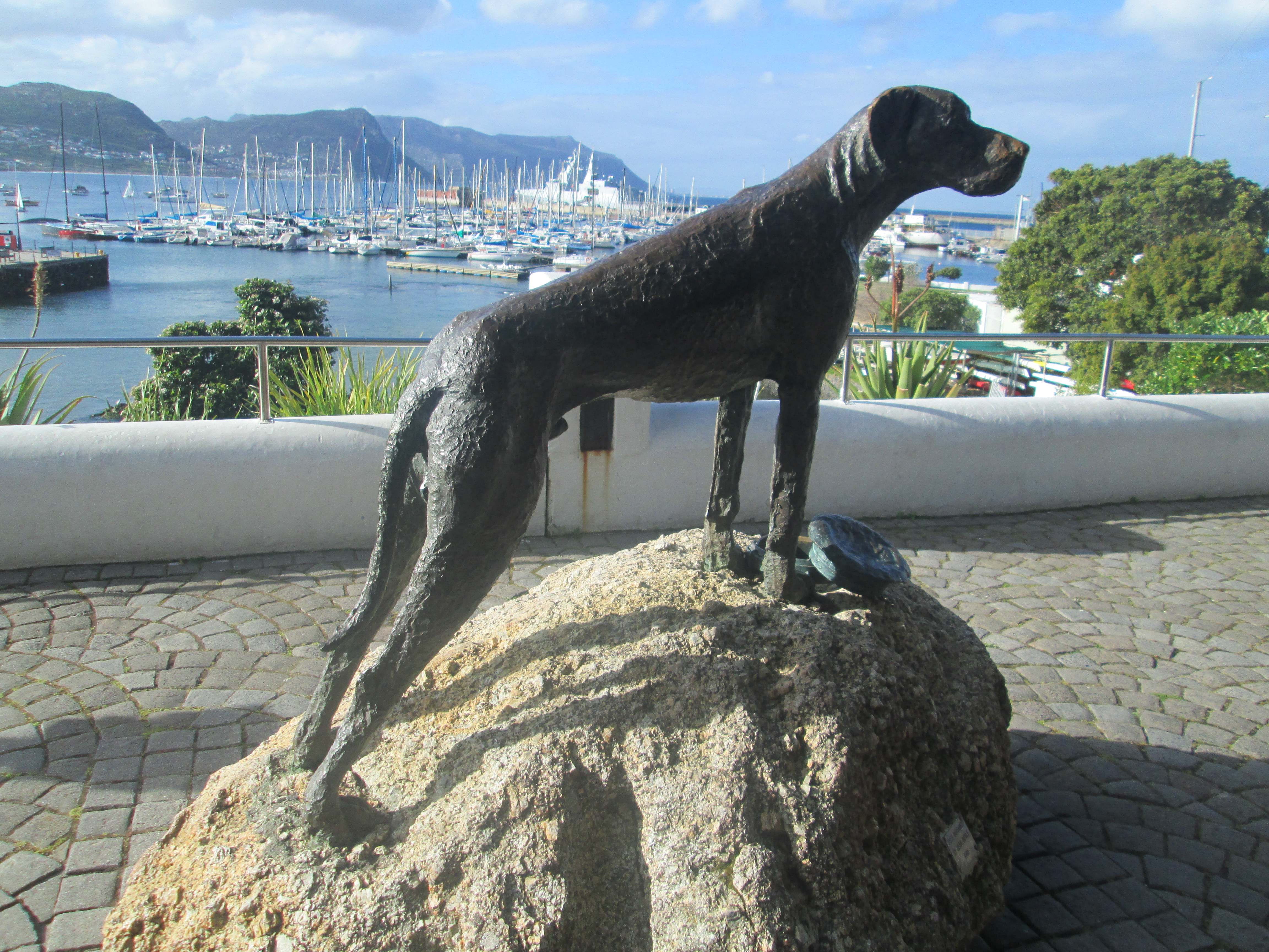 This media shows a South African Protected Site with SAHRA file reference Jubilee Square, Simonstown.